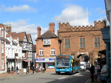 436 bus in the High Street, Bridgnorth, Shropshire, England.